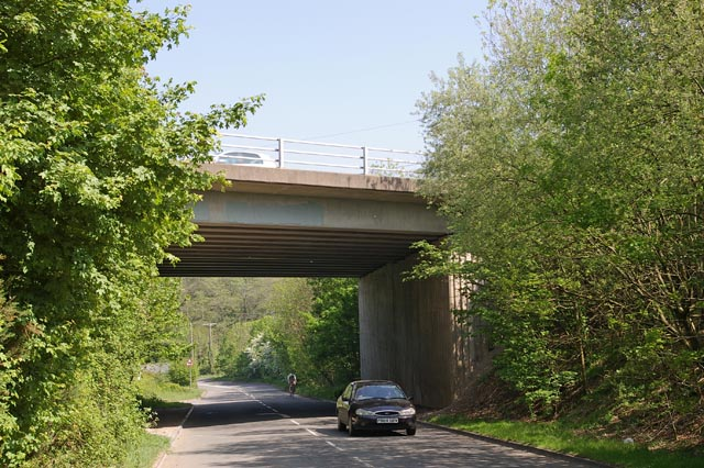 Bridge carrying the A4232 over St Georges road. The A4232 is the main access road from Cardiff west to the M4.